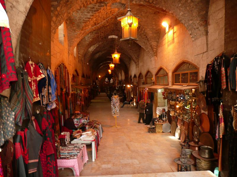 Khan Al-Shuneh in Aleppo by Graham van der Wielen [